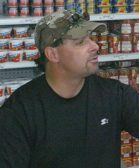 Turk Wendell, a former major league baseball pitcher, at Forward Operating Base Kalsu, Iraq.